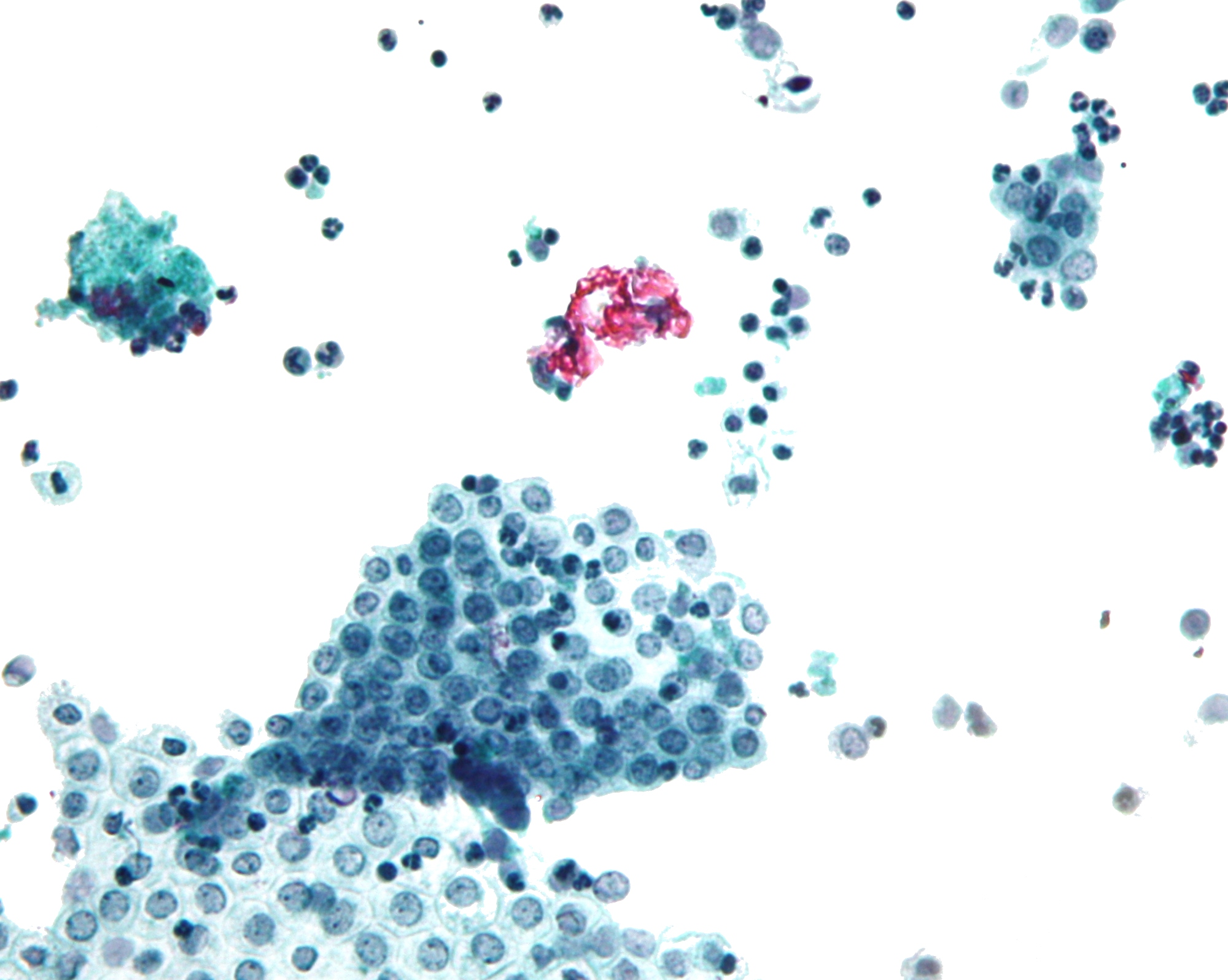 Micrograph of benign mesothelial cells. Peritoneal wash. Pap stain. The micrograph shows features typical of benign mesothelial cells: A monolayer of cells with: Distinct cell borders (mimicking the appearance of cobblestones), A moderate amount of cytoplasm, and A central nucleus. Features typical of benign mesothelial cells not evident on the image: Intracellular windowing. Nuclear inclusions. Cytoplasmic blebbing. Related images High mag. Intermed. mag.